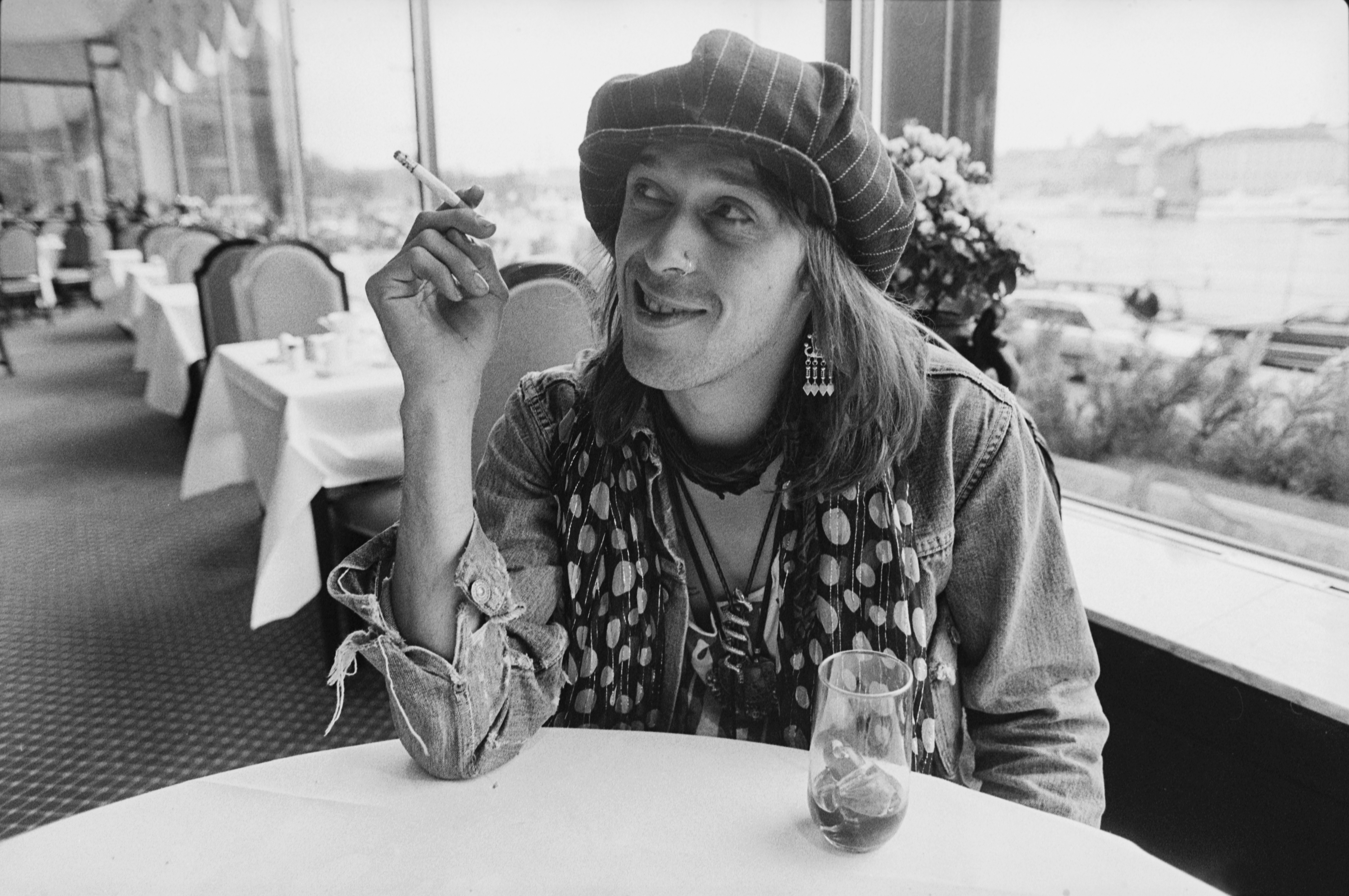 Photograph of the Finnish rock musician Andy McCoy (1962–) in Stockholm.